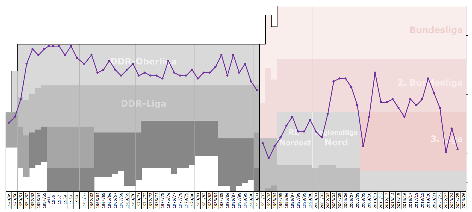 Chart of end-season table positions of Erzgebirge Aue in the football league system of Germany and GDR. Data source: RSSSF, wikipedia, f-archiv.de, fussball.de